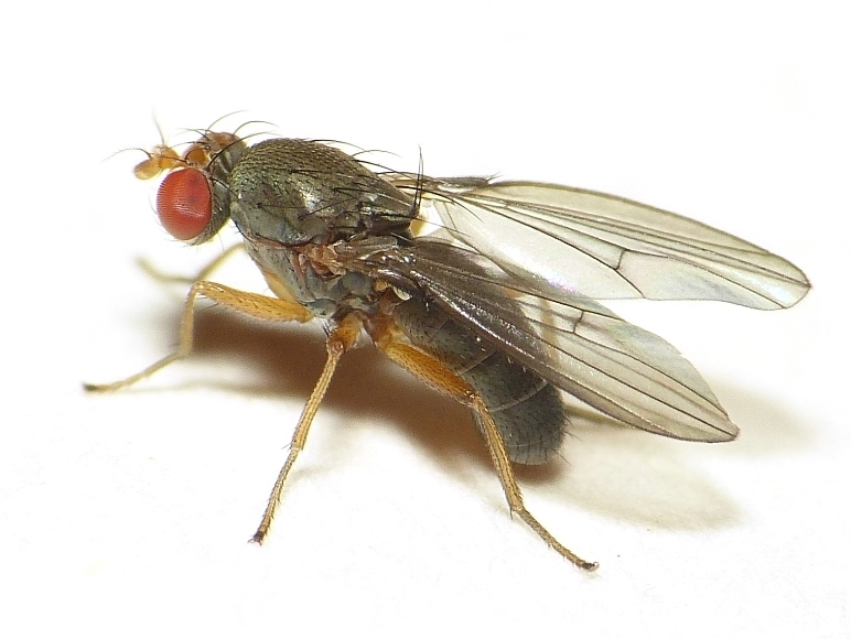 Diastata fuscula, location: The Netherlands - Rhenen - Blauwe Kamer - Gelderland